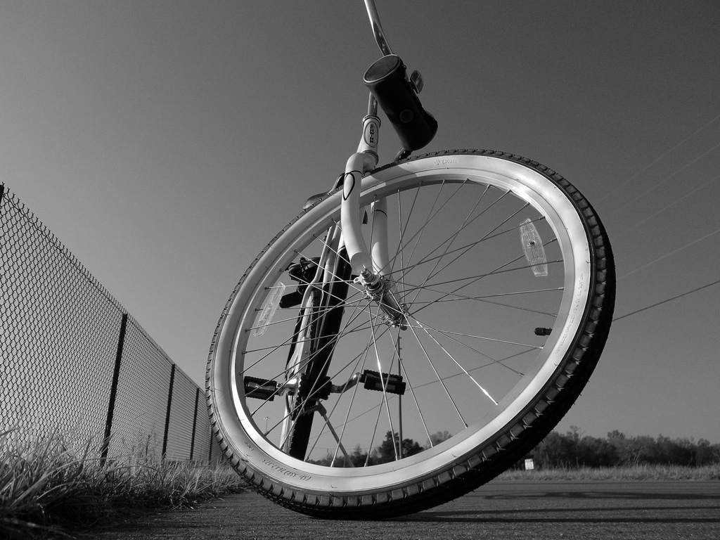 Schwinn in Suncoast Trail